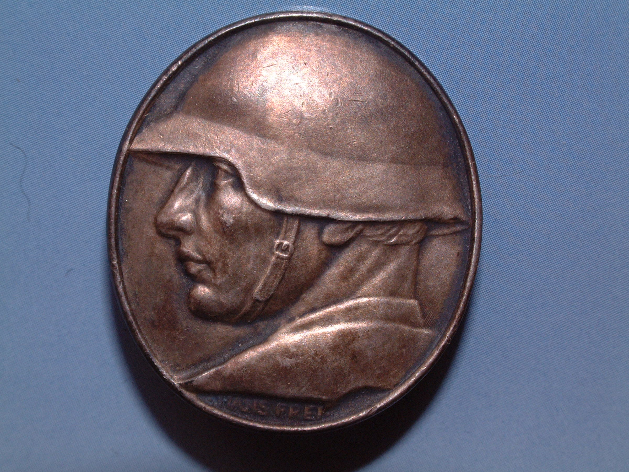 Swiss Helmet M/1918